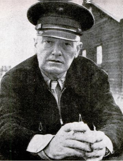 William Wallace Ashurst (October 30, 1893 – February 18, 1952) was a Brigadier General in the United States Marine Corps, who served as a last commander of the North China Marine Detachment. He was captured by Japanese forces on December 8, 1941 and was held in captivity until the rest of the war.